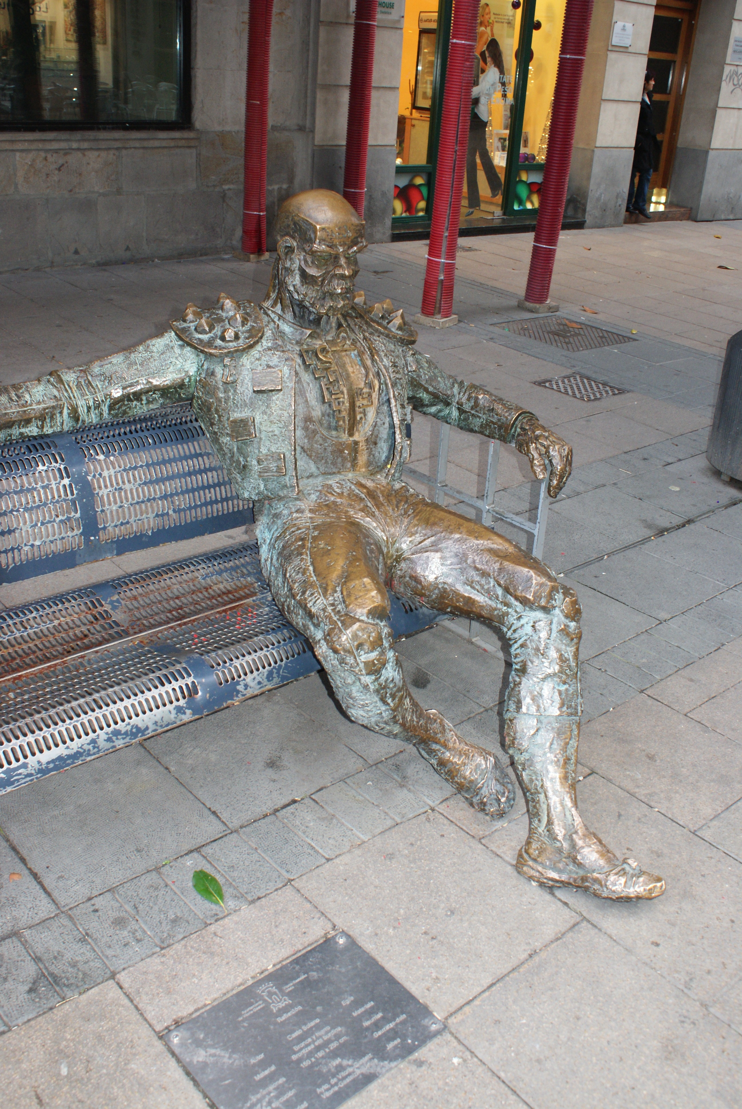 Sculpture in Dato Street